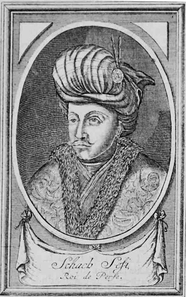 Portrait of Shah Safi I of Persia in page 924 of the book "Relation du voyage de Moscovie, Tartarie et de Perse, fait à l'occasion d'une ambassade envoyée au Grand-Duc de Muscovie et du Roy de Perse; par le Duc de Holstein : depuis l'an 1633, iusques en l'an 1639 "